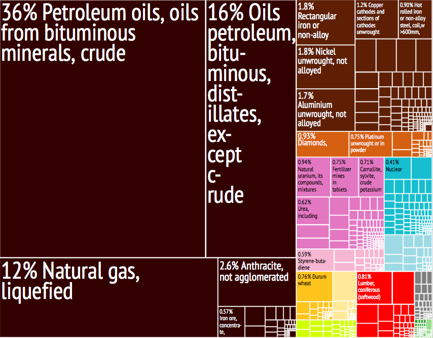 Russia Export Treemap from MIT Harvard Economic Complexity Observatory